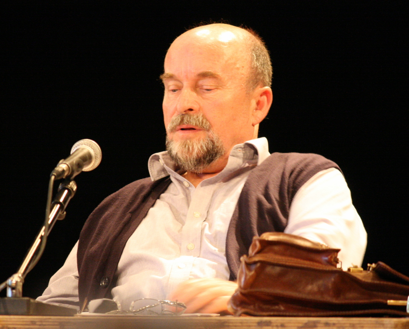 Rainer Eppelmann at the "Berlin 08" festival